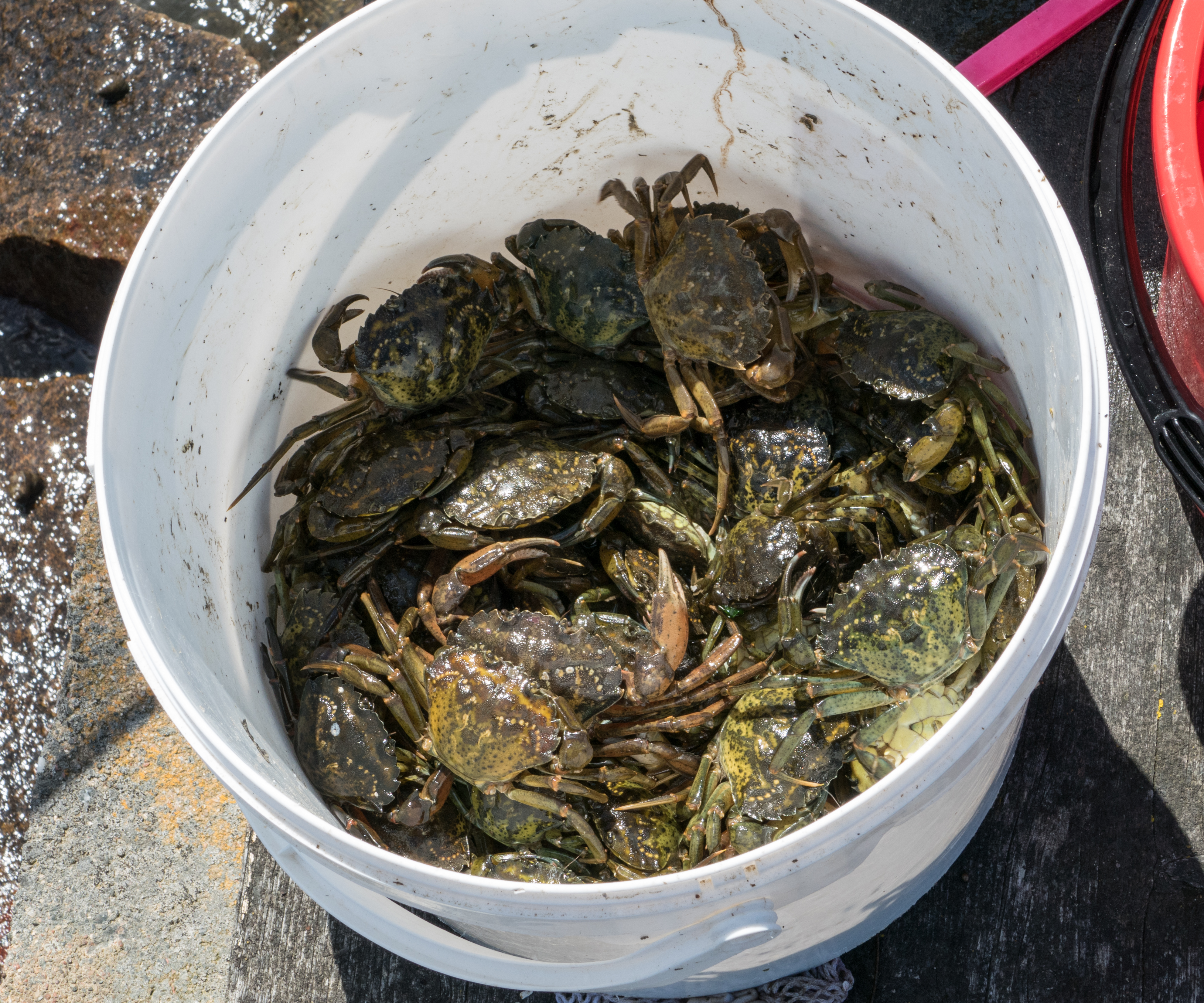 A bucket half full with live shore crabs (Carcinus maenas) caught at Holländaröd, Lysekil Municipality, Sweden.